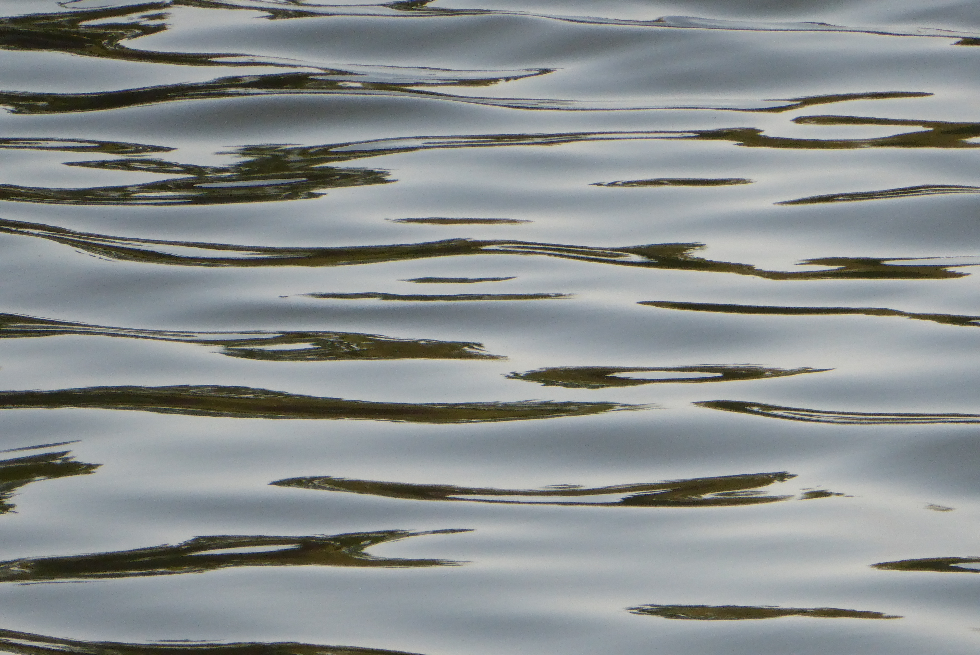 Waves in the water of Ramat Gan, National Park, Ramat Gan